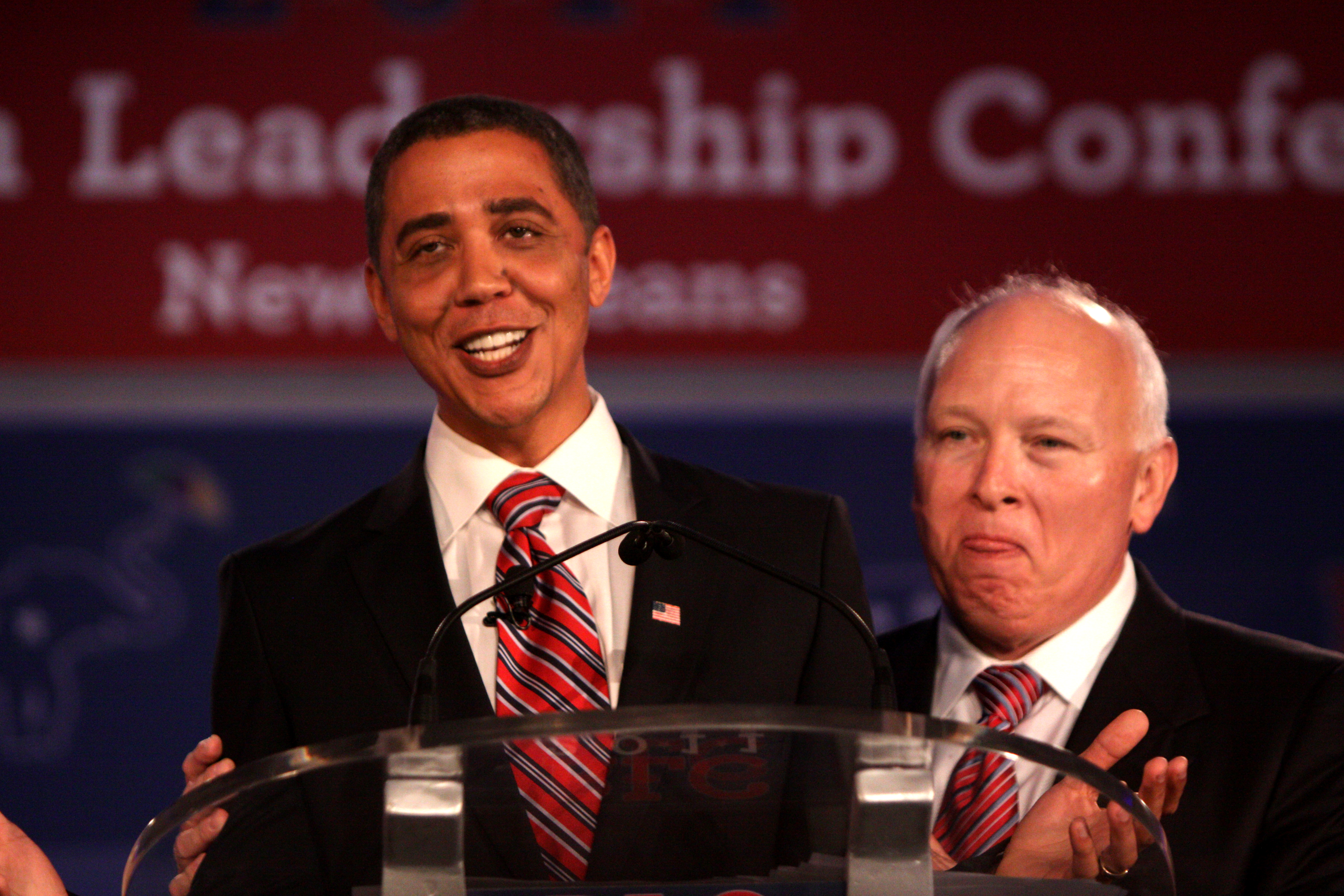 Reggie Brown, a Barack Obama impersonator, at the Republican Leadership Conference in New Orleans, Louisiana, while being escorted off stage by an event organizer.